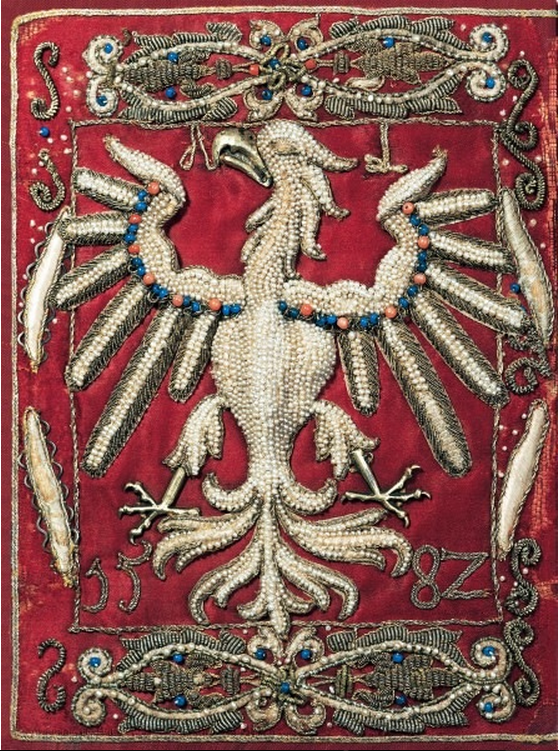 Embroidered Polish eagle on a book from by Anna Jagiellon's library, known as prayer book of Anna Jagiellon.